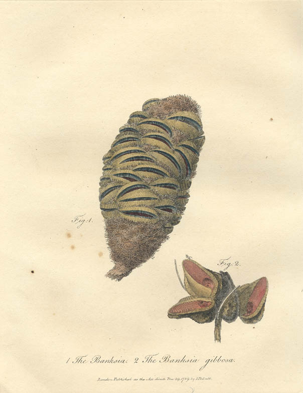 This is an image of a plate that appeared on Page 225 of John White's 1790 Journal of a Voyage to New South Wales. Figure 1, captioned "The Banksia", shows a Banksia infructescence. The accompanying text states that "we cannot with certainty determine the species. The capsules are smooth, at least when ripe, and a little shining. We think this is neither the B. serrata, integrifolia, nor dentata of Linnaeus, nor probably his ericifolia; so that it seems to be a species hitherto undescribed. The leaves and flowers we have not seen." Three years later, in James Edward Smith's A Specimen of the Botany of New Holland, the figured plant was tentatively labelled a Banksia spinulosa (Hairpin Banksia): "We suspect the fruit figured in Mr. White's Voyage, page 225, fig. I, may belong to this species, but we have no positive authority to assert it." However, in 1981 Alf Salkin argued that "The cone illustrated by White (1790) is probably not as suggested from the B. spinulosa described by Smith but, may be from another member of the complex or from one of the forms of B. ericifolia. Figure 2 is captioned "The Banksia gibbosa", but this plant has long since been transferred into a separate genus as Hakea gibbosa.